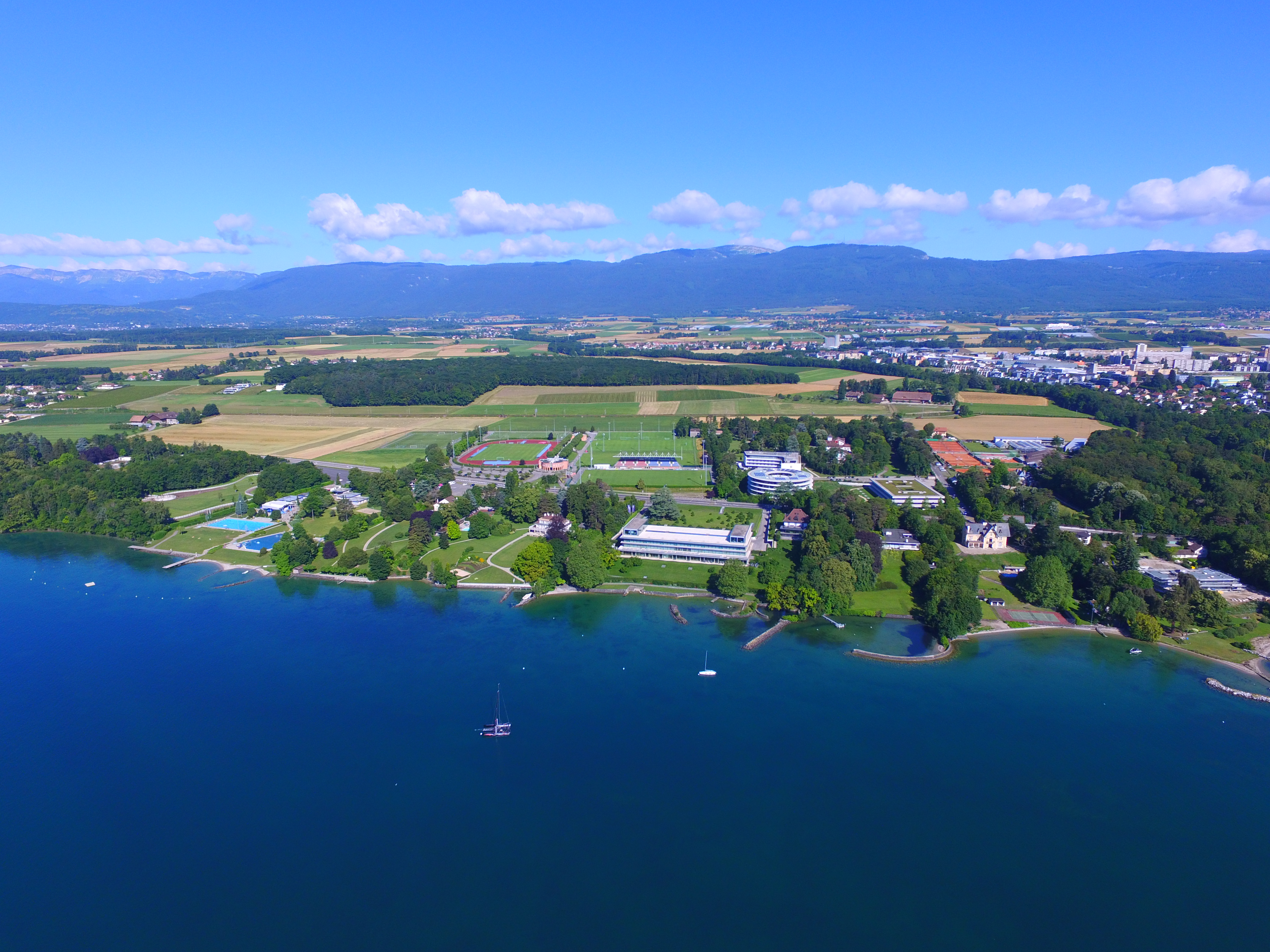 UEFA headquarter in Nyon